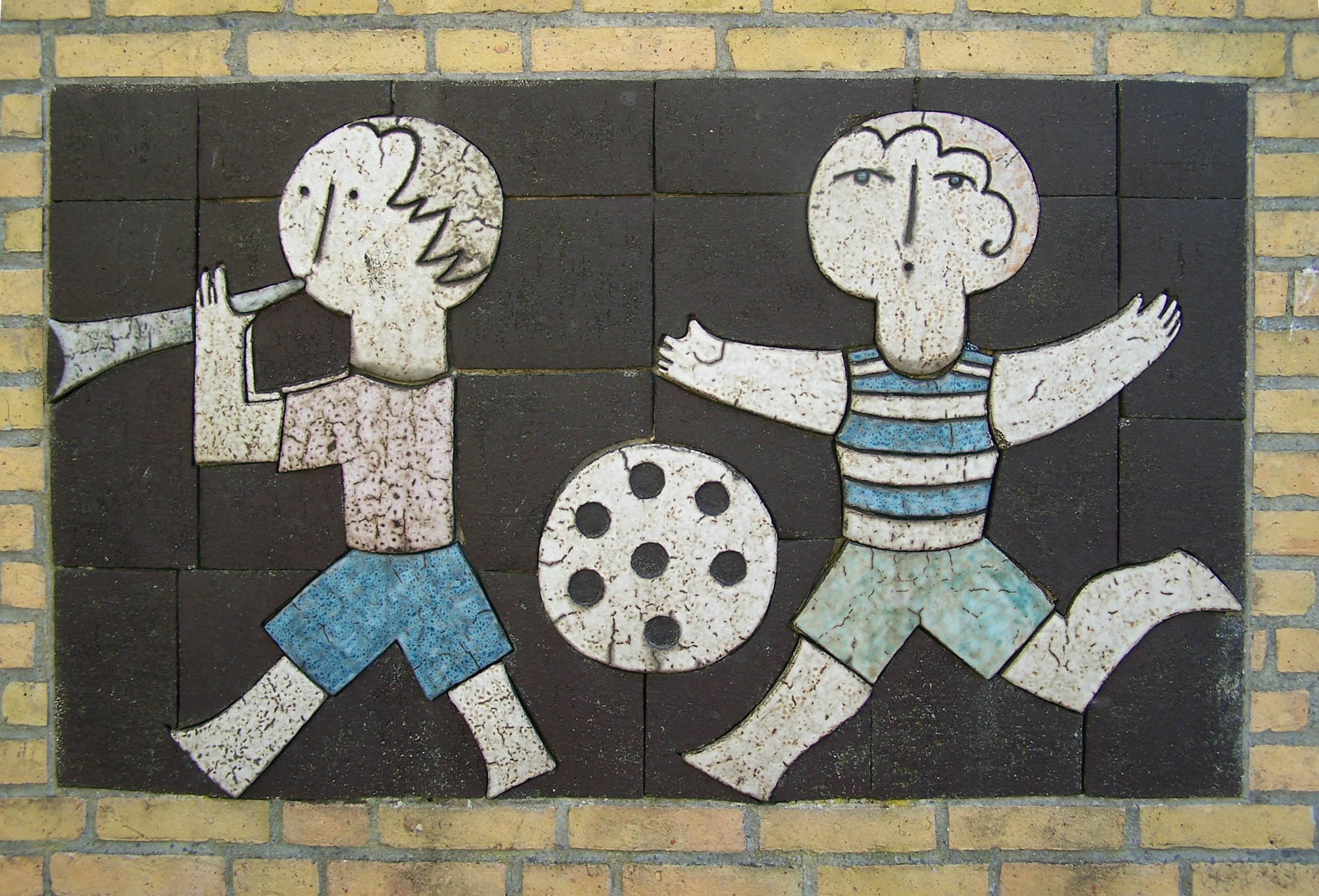 Ceramic reliefs placed at the Comenius college at the Schieringerweg in Leeuwarden. Made by Hannie Mein in ?.